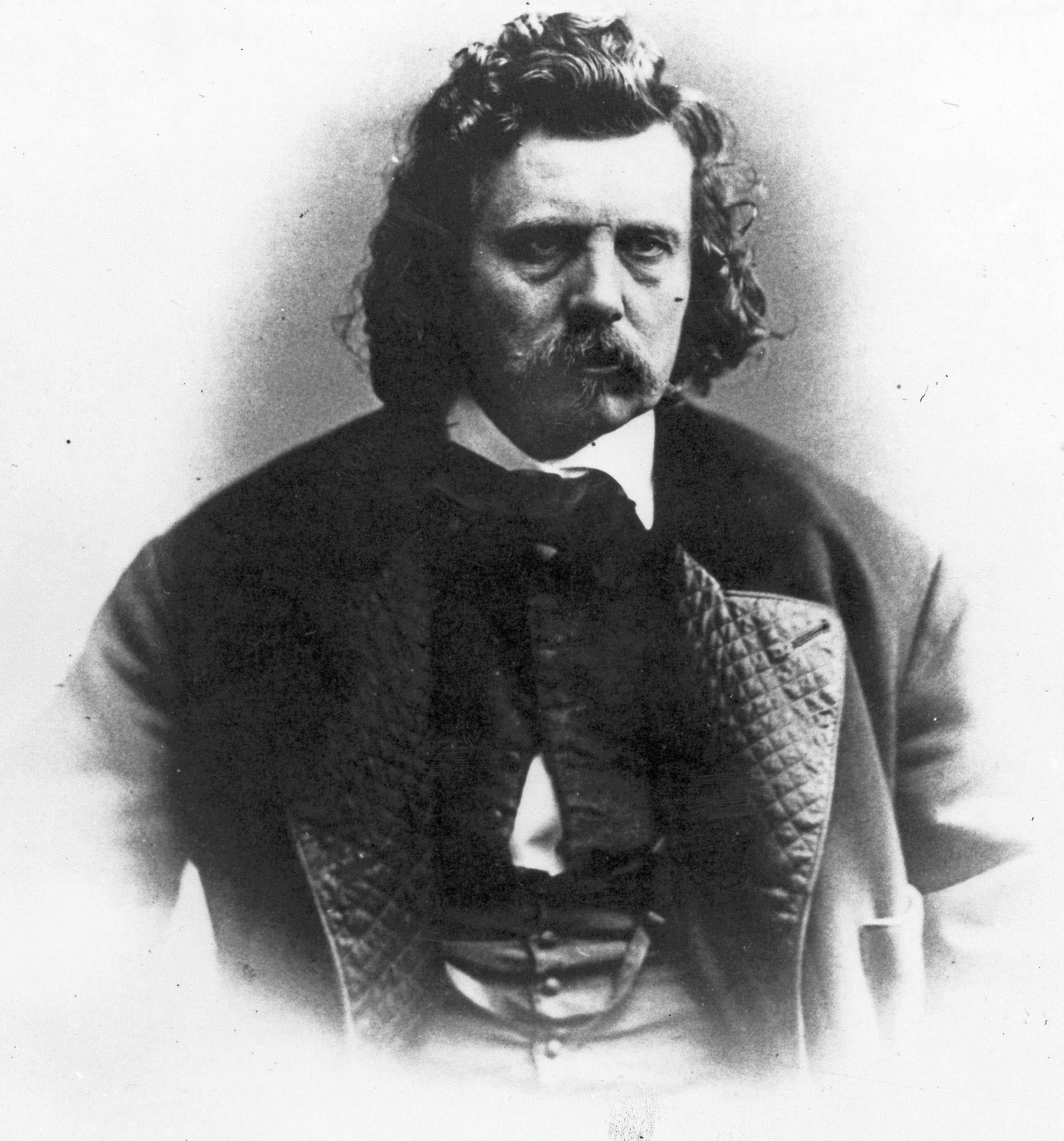 A circa 1870 photograph of Emanuel Leutze, a German-born American painter. Copyprint of a photograph of Leutze originally taken by John D. Shiff.